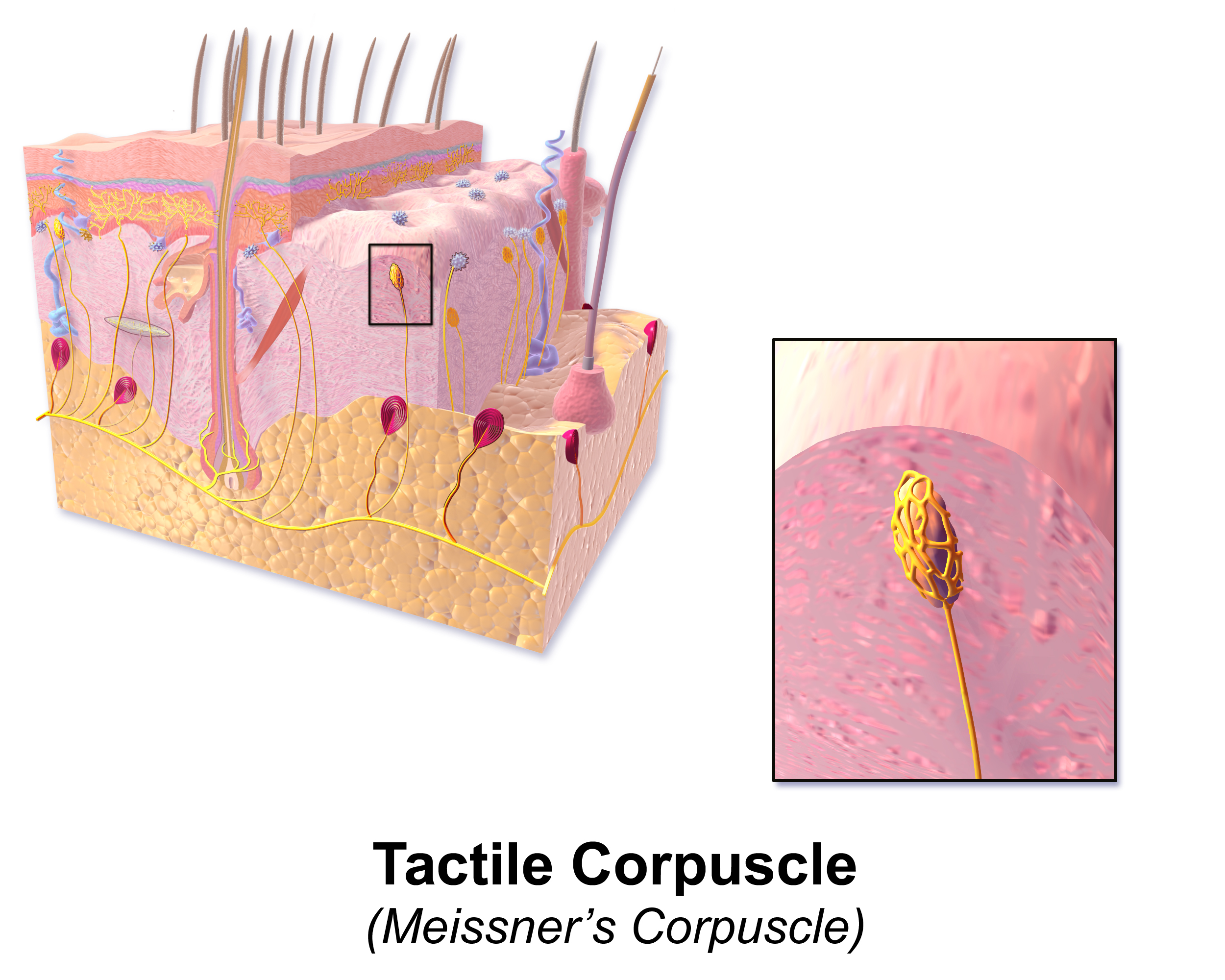 Tactile Corpuscle. See a full animation of this medical topic.